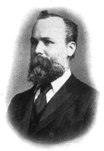 Photograph of Edward Maunder, the astronomer